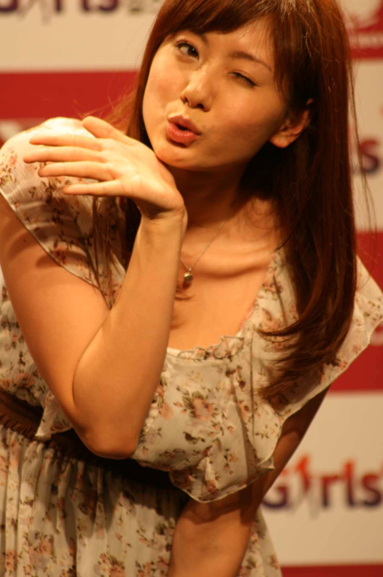 Asami Yuma posing for photos.